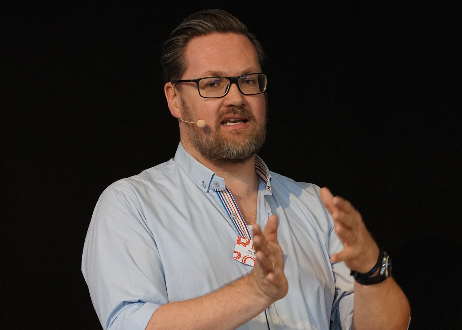 Ole Sønnichsen - Danish journalist and writer - at the historic event "Historiske Dage 2019", Copenhagen, Denmark